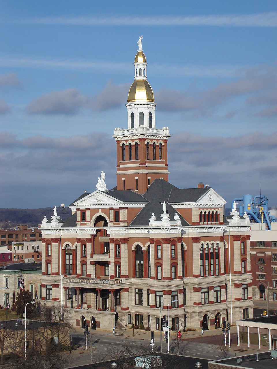 Description: The Dubuque County Courthouse in Dubuque Iowa - Source: My own work - Date: Dec 23, 2006 - Author: Daniel Callahan